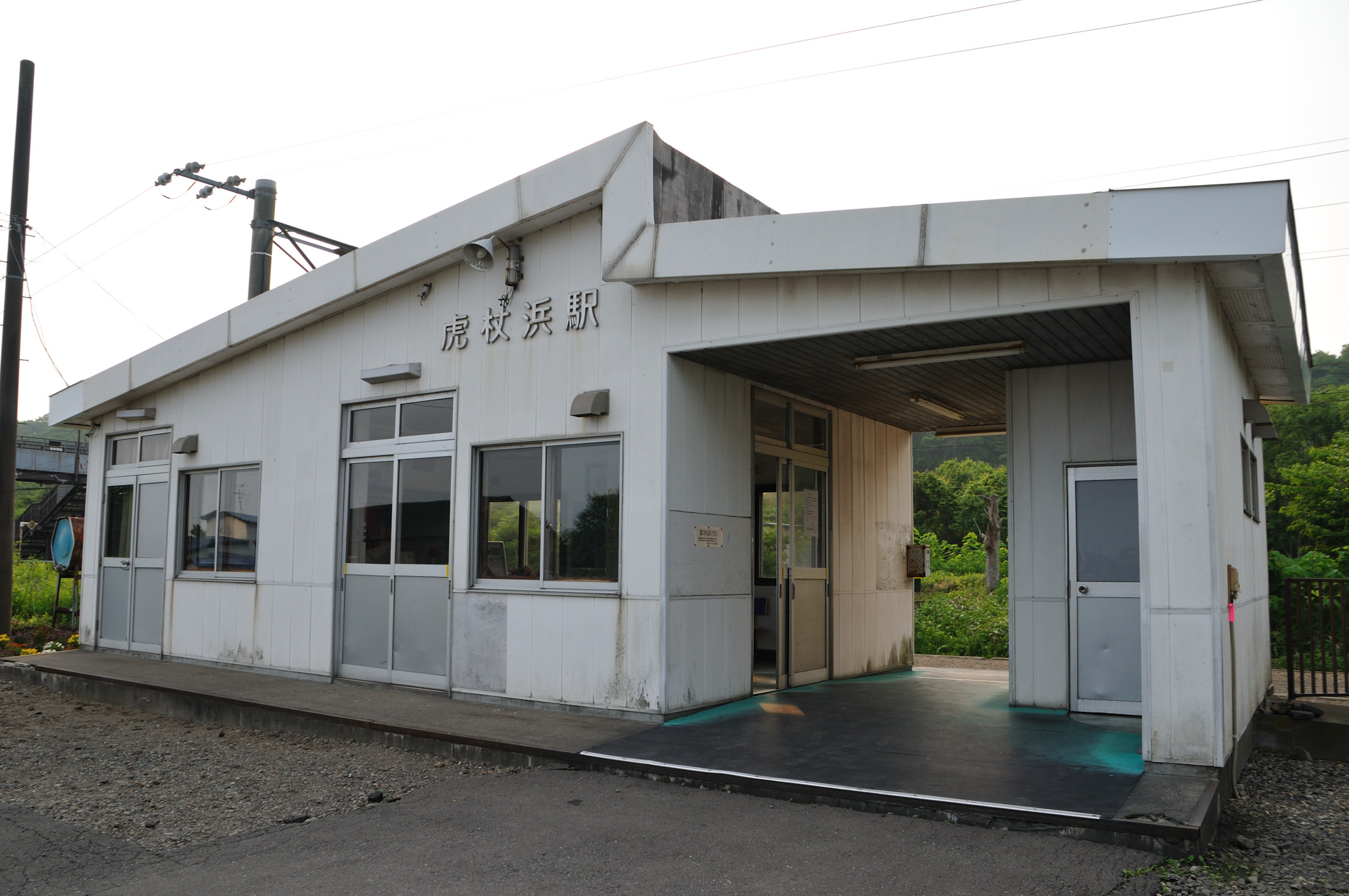 Kojohama station, Shiraoi, Hokkaido, Japan